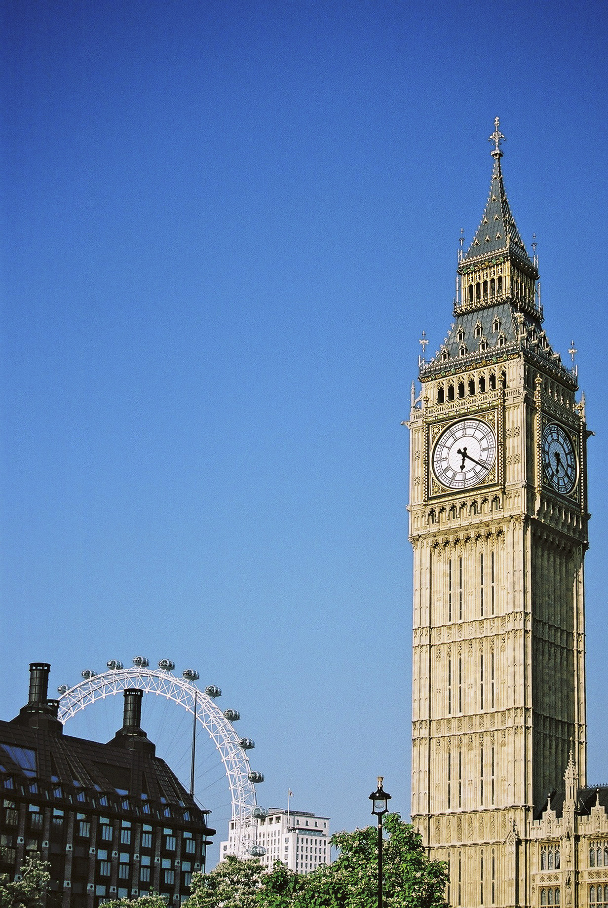 Big Ben in London, England, United Kingdom